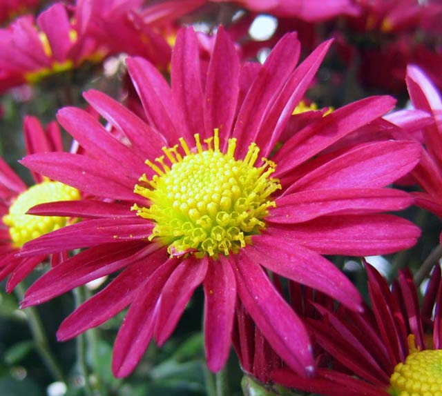 Description: Bastensko cvece Source: self-made